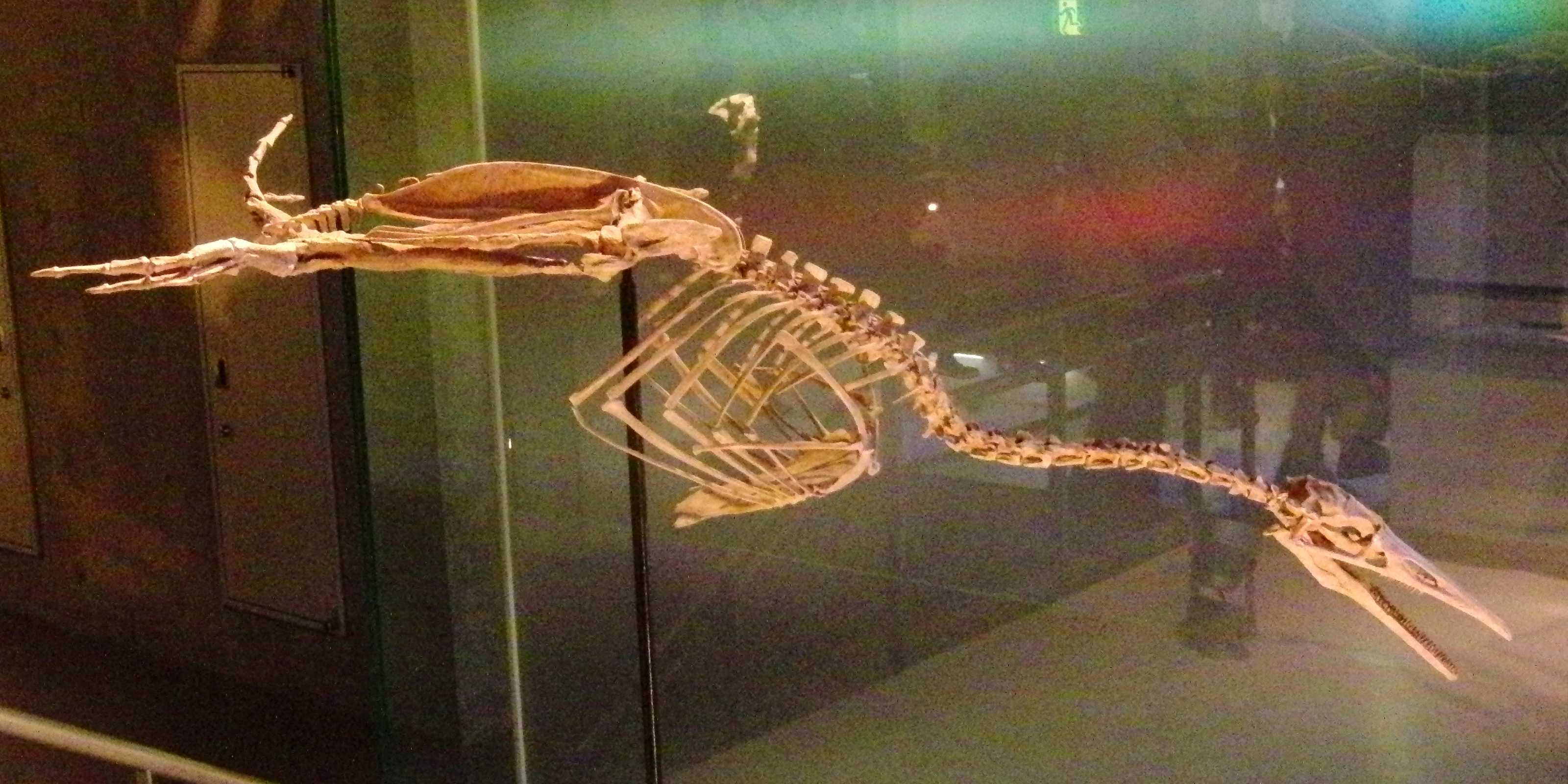 Skeleton of Parahesperornis alexi. Exhibit in the National Museum of Nature and Science, Tokyo, Japan.